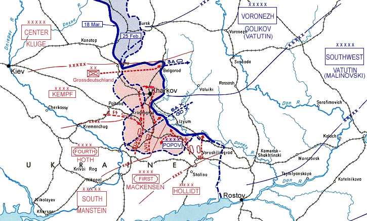 Clipping of the larger Map Third Battle of Kharkov